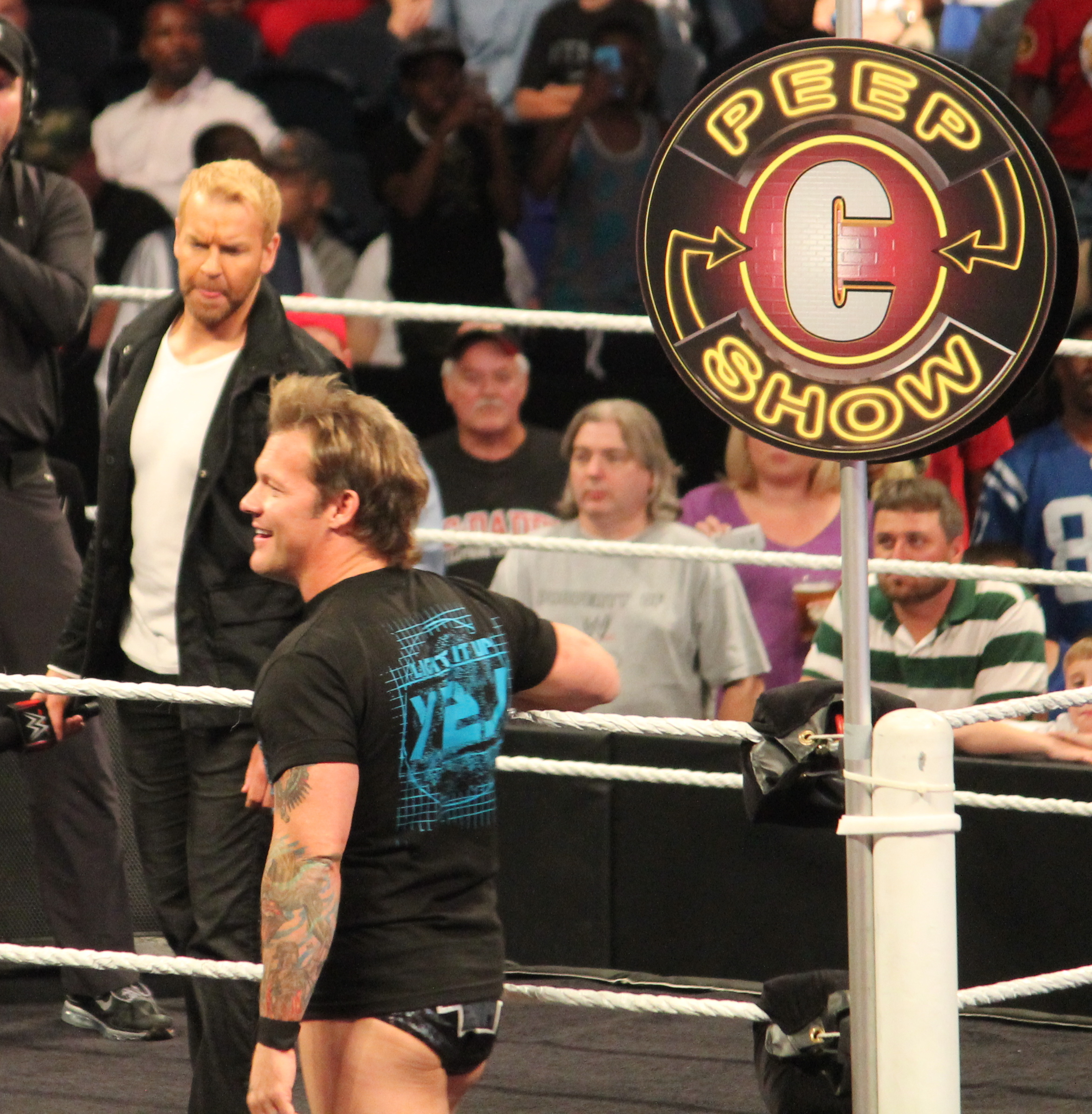 Christian's Peep Show on the Night of Champions pre-show featuring Chris Jericho. Cropped from original.